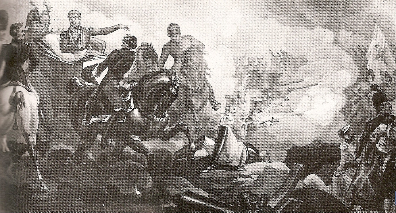 The French Marshal Masséna at the Battle of Wagram